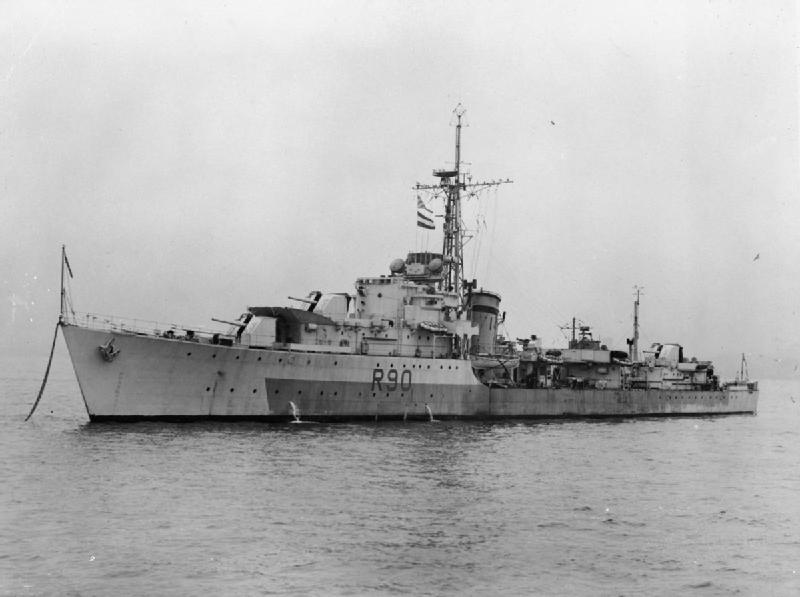 Photograph of British C class destroyer HMS Cheviot, on completion.